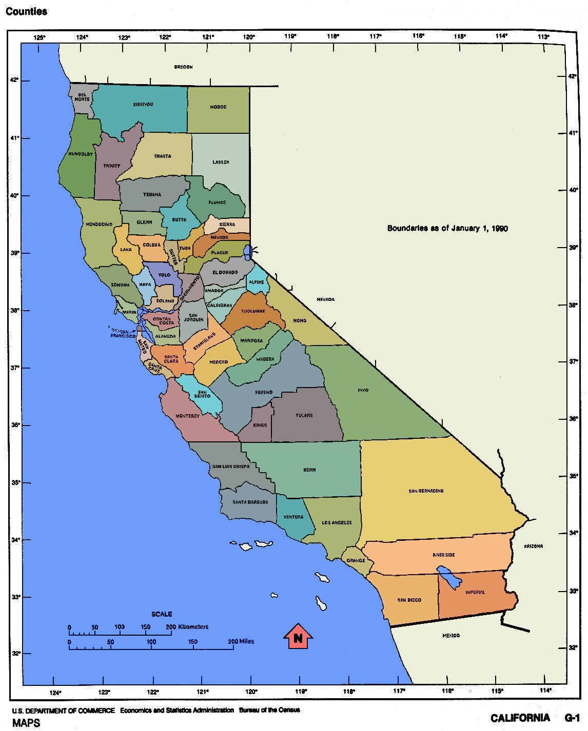 Map of the Counties of California